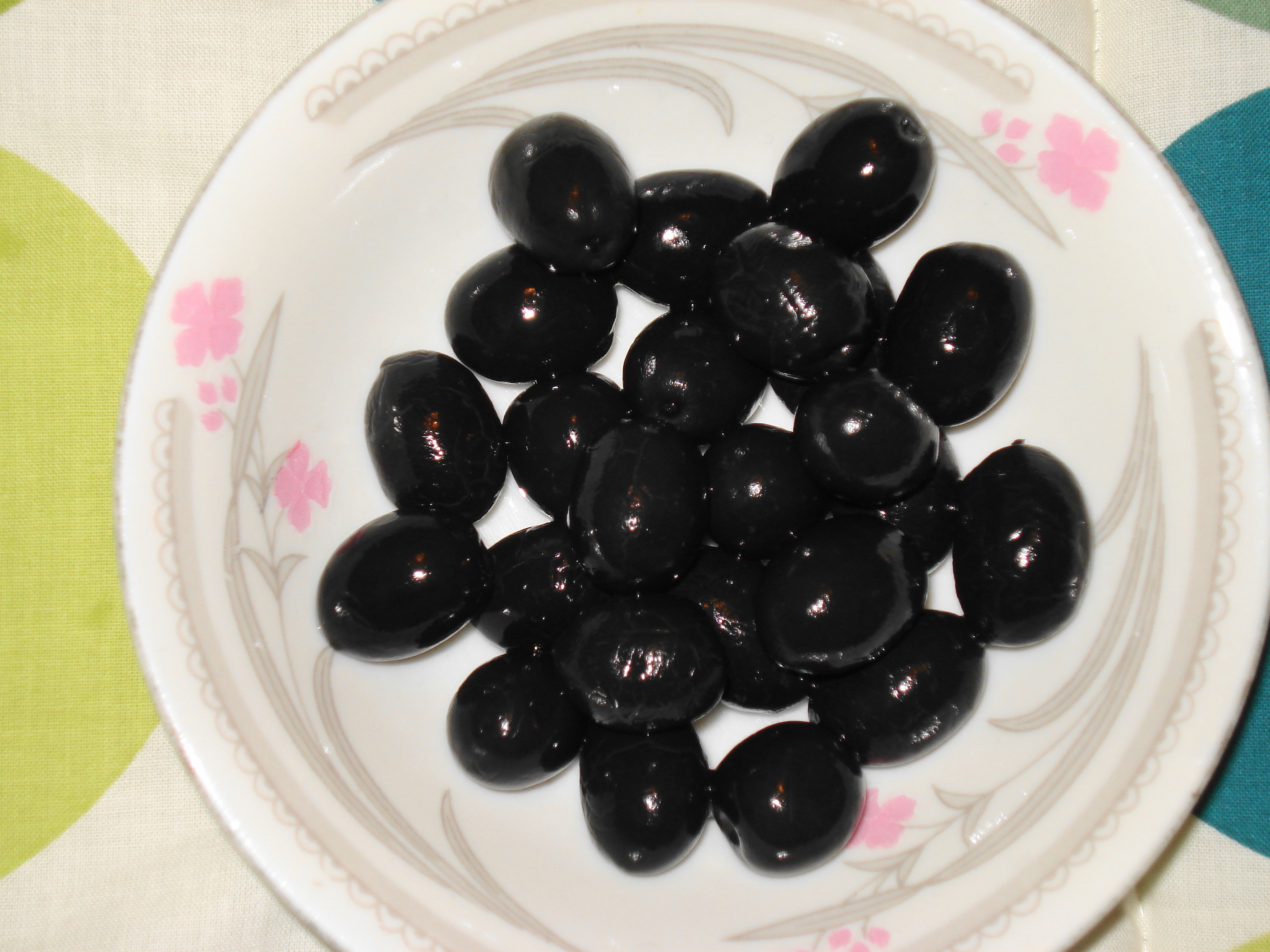 Seah Zaitoon, black olives from Pakistan